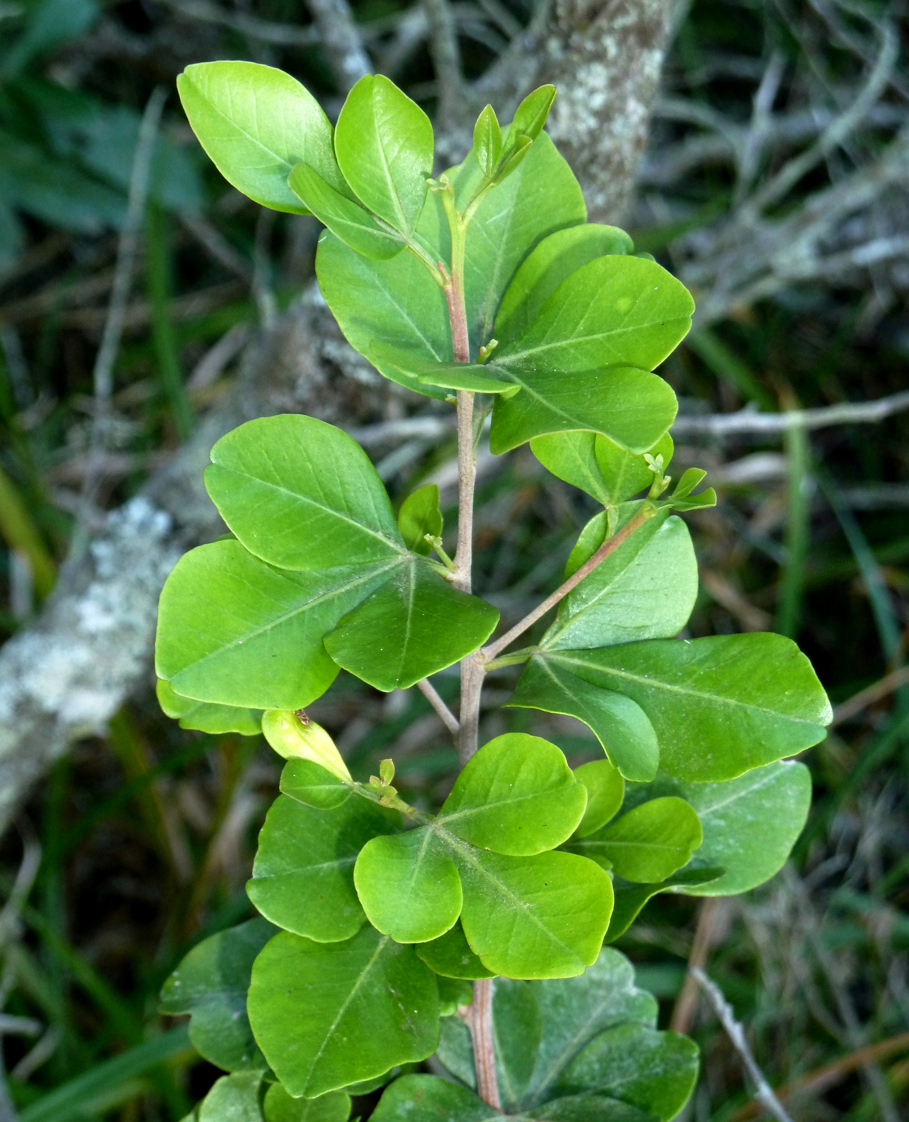 Fresh foliage of a Waxy-leaved rhus growing at the forest-grassland ecotone in upper Krantzkloof Nature Reserve, KwaZulu-Natal